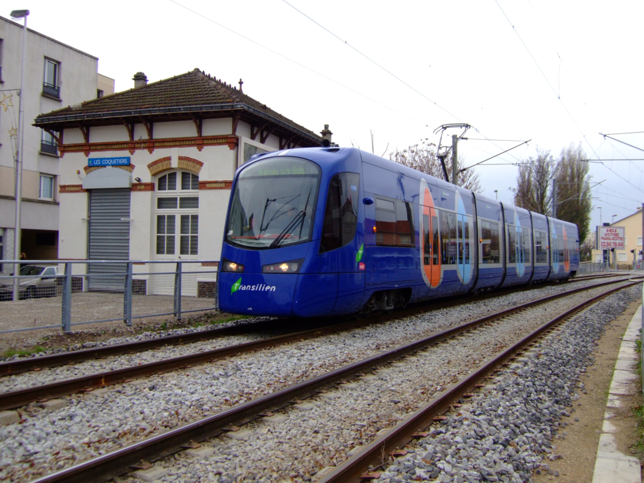 Tram-train U 25500 (Siemens AG constructor, Avanto model) on renovated line between Aulnay sous bois and Bondy (both in Seine Saint Denis, France). This line is now named T4 from tramway parisien network. Here this tram is accrossing the Les Coquetiers station (city of Villemomble) in direction to Aulnay sous Bois (traffic on right).